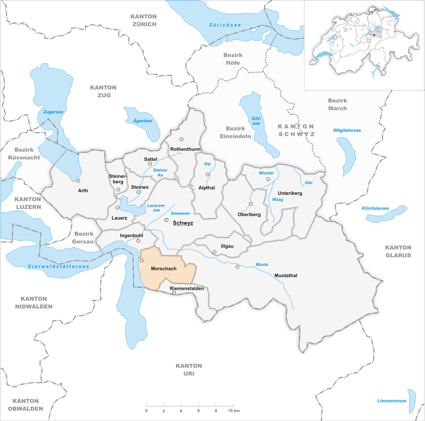 Municipality Morschach